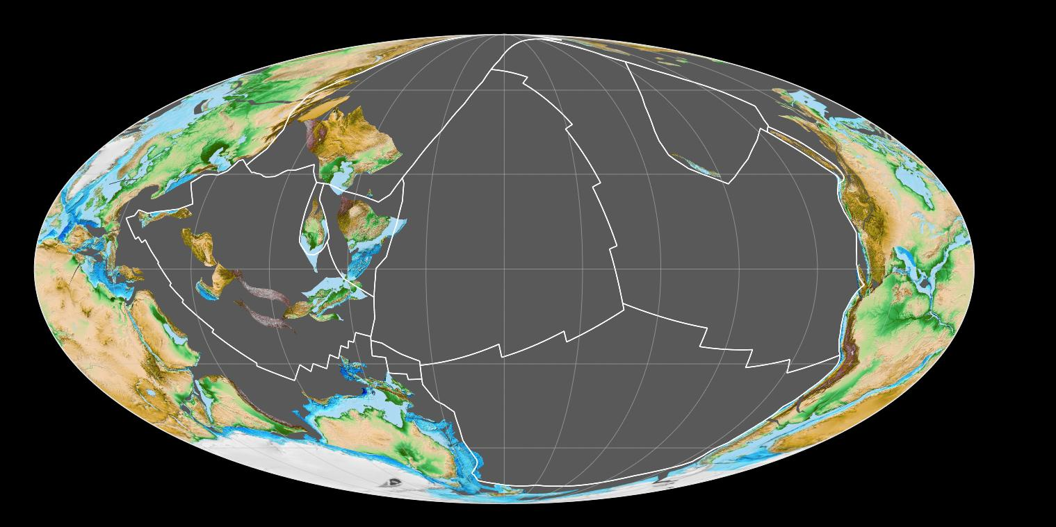 Panthalassa was the superocean that surrounded the supercontinent Pangaea. Mollweide projection. View centred on 180°, 180°. Made in GPlates using the following datasets:[1] Müller, R.D., Seton, M., Zahirovic, S., Williams, S.E., Matthews, K.J., Wright, N.M., Shephard, G.E., Maloney, K.T., Barnett-Moore, N., Hosseinpour, M., Bower, D.J., Cannon, J., 2016, Ocean basin evolution and global-scale plate reorganization events since Pangea breakup: Annual Reviews of Earth and Planetary Sciences, Vol 44, 107-138 Matthews, K.J., Maloney, K.T., Zahirovic, S., Williams, S.E., Seton, M., and Müller, R.D. 2016, Global plate boundary evolution and kinematics since the late Paleozoic : Global and Planetary Change, Vol 146, 226-250. Amante, C. and Eakins, B. W. 2009. ETOPO1 1 Arc-Minute Global Relief Model: Procedures, Data Sources and Analysis. NOAA Technical Memorandum NESDIS NGDC-24, 19.